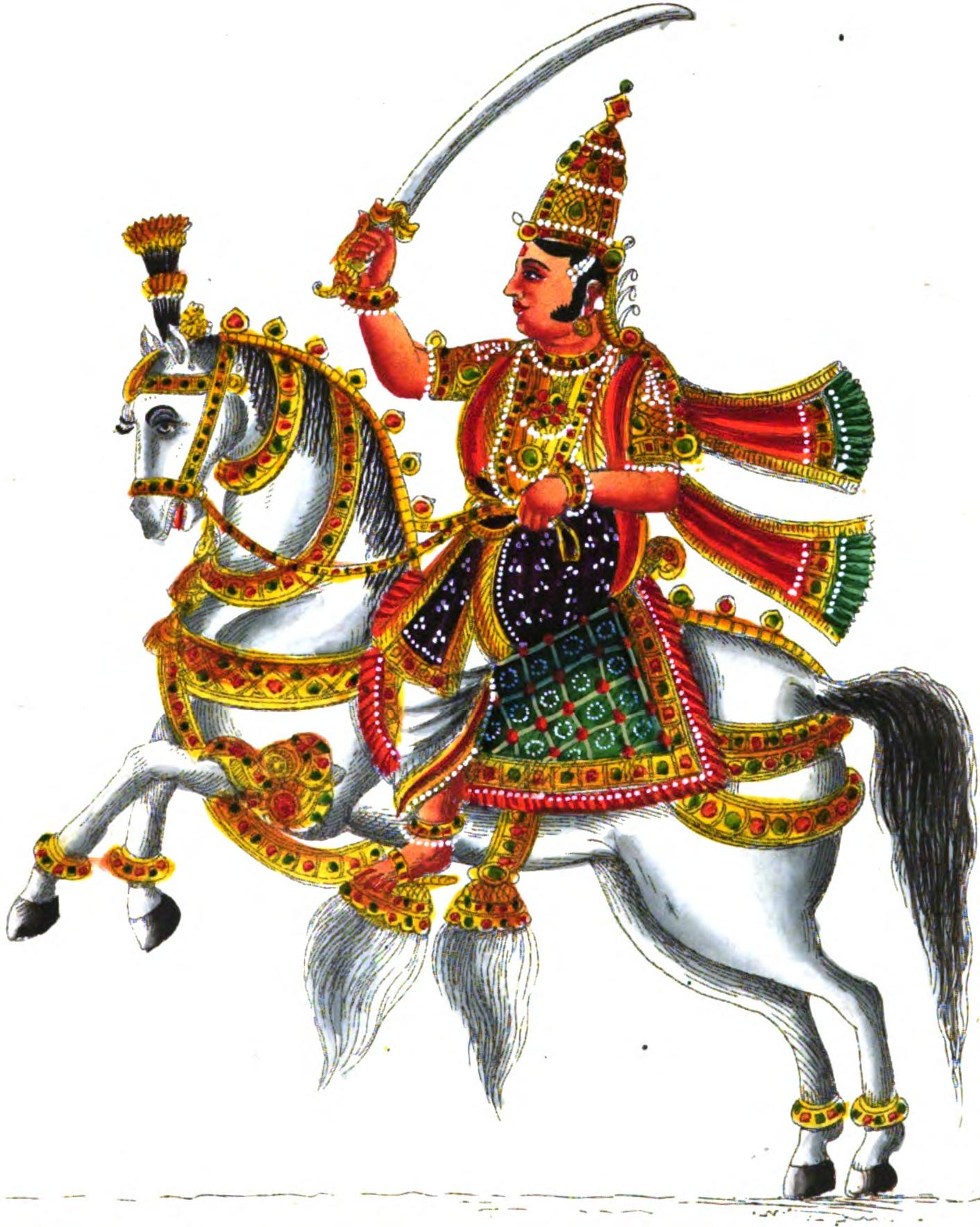 Kubera as written in the source (page 30)